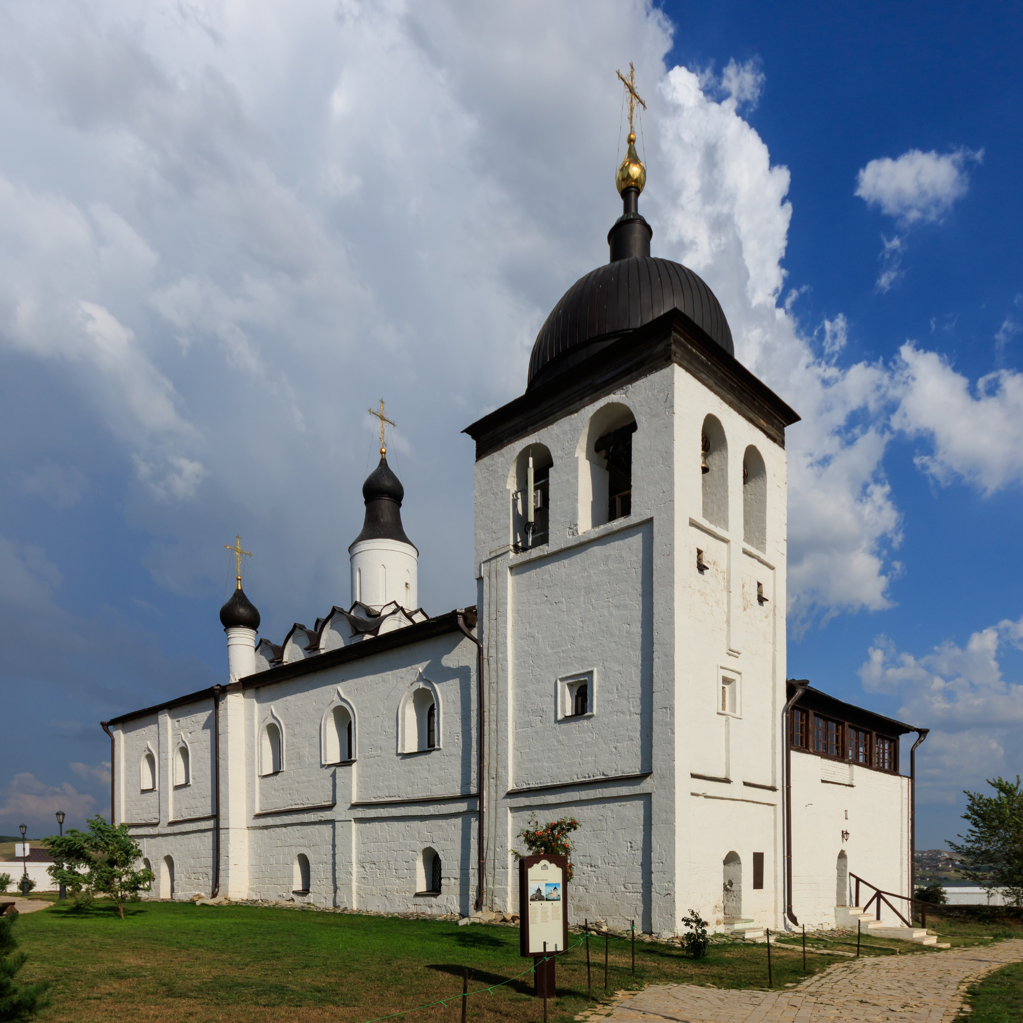 Church of Saint Sergius in Ioanno-Predtechensky Convent. Sviyazhsk, Tatarstan, Russia.